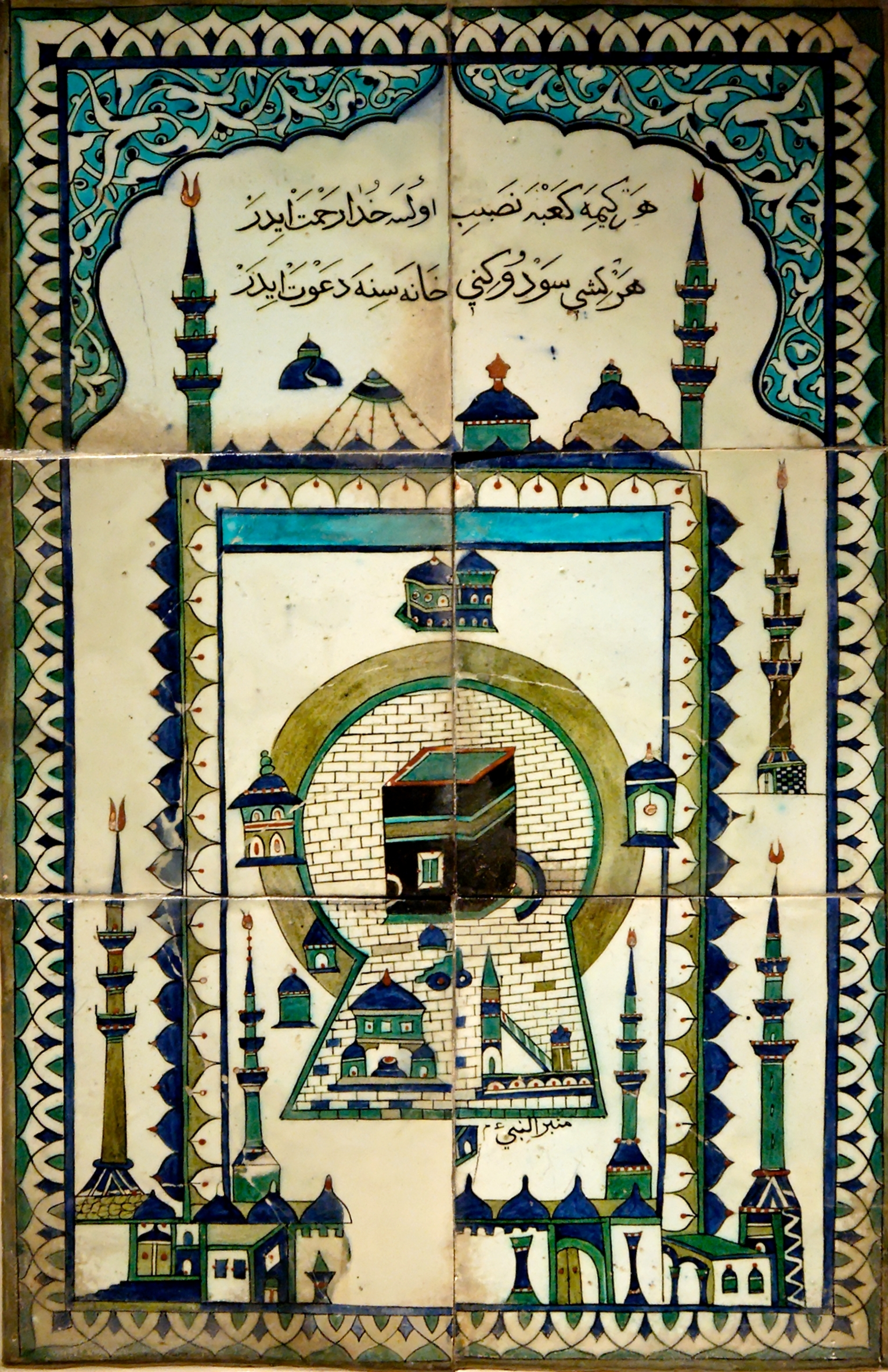 Panel tile representing the Masjid al-Haram (Sacred Mosque) of the city of Mecca. Fritware with painted decoration under transparent glaze. Made in Iznik (Turkey).